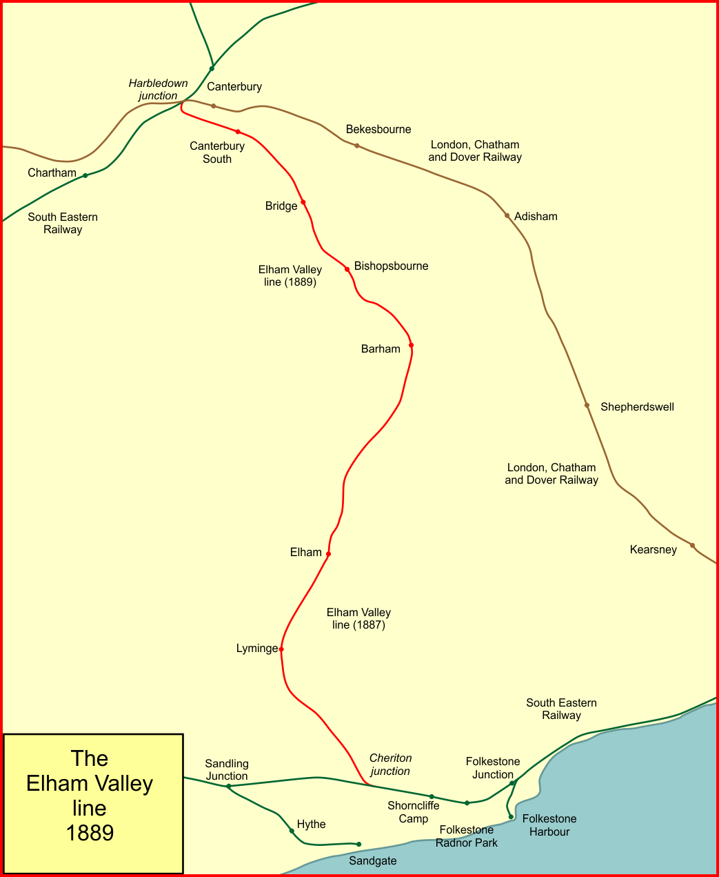 System map of the Elham Valley railway line in Kent, England, in 1889